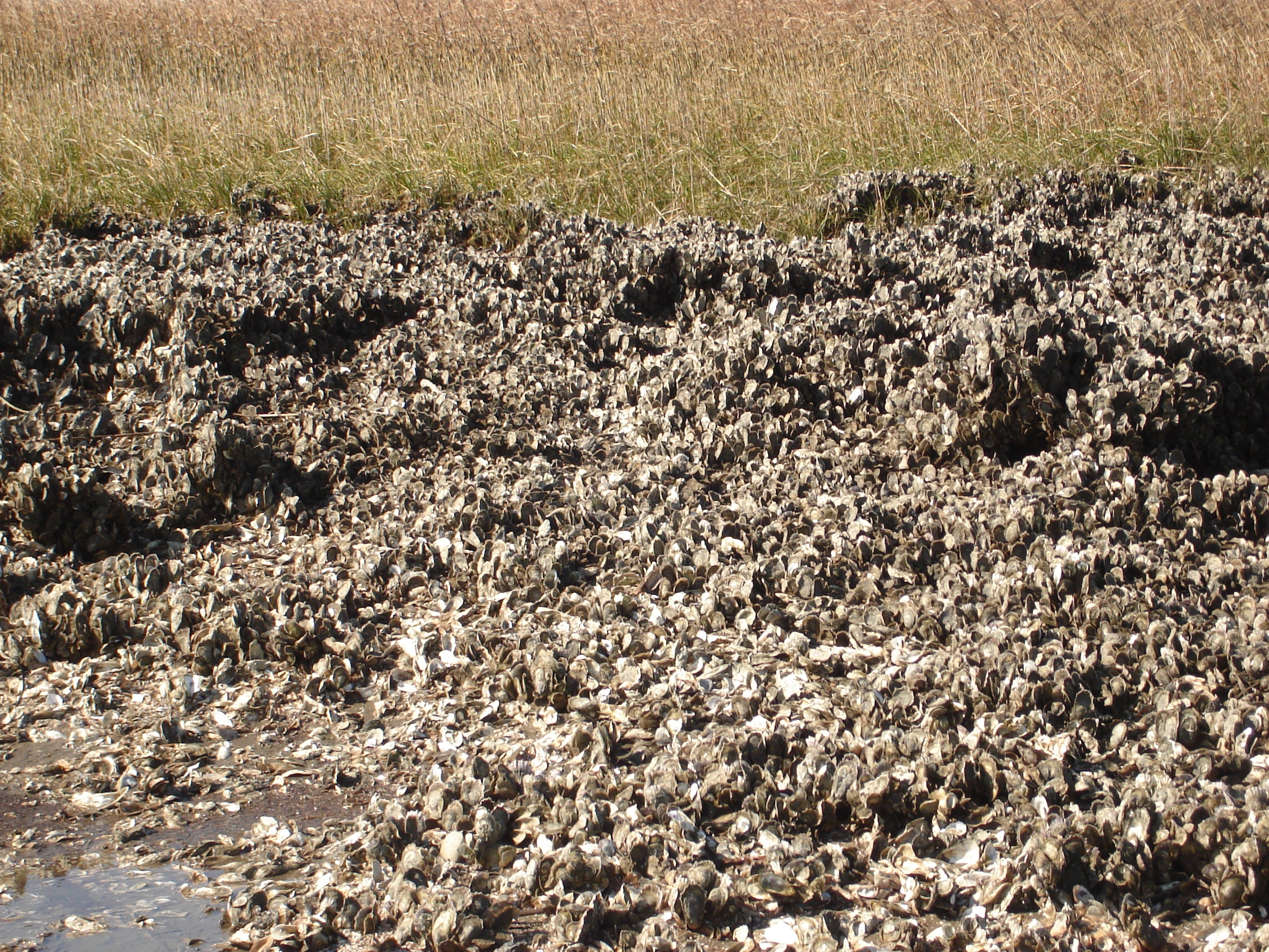 Oyster bed on Cockspur Island, Georgia. I took this photo myself on Jan 28, 2006.